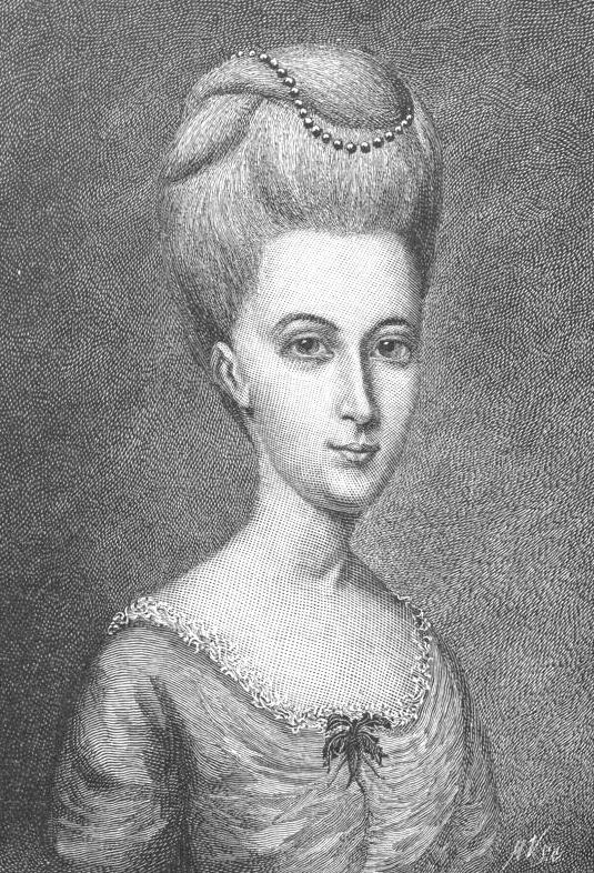 An illustration of an eighteenth-century woman, with a high bouffant hair style and a scoop-necked dress with lace trim.